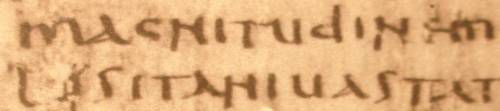 Papyrus Oxyrhynchus 668 - British Library 1532r - Epitome of Livy, fragment ("magnitudinem // Lusitani vastat"). Can be considered either an example of earliest semiuncial script or its predecessor, the so-called reformed rustic script